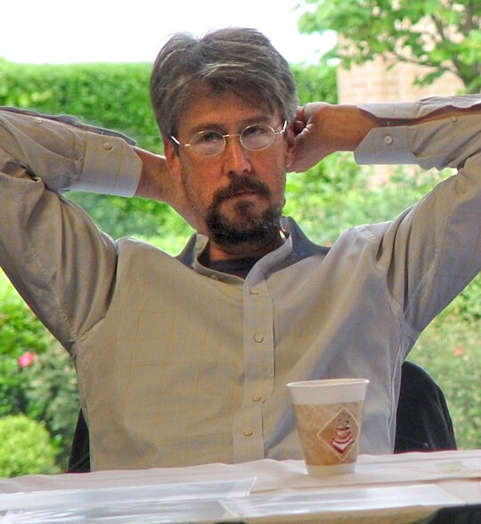 American actor Alan Ruck at the Dallas Comic Con.